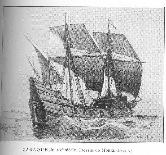 15tc century carrack